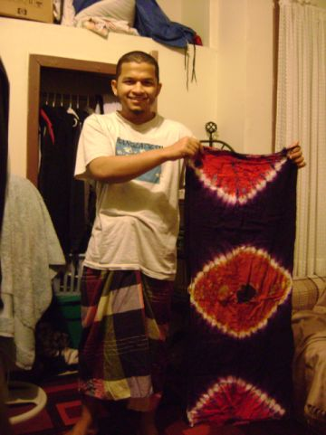 Boy from the slums of Dhaka wearing a traditional lungi while holding up a colorful lungi.